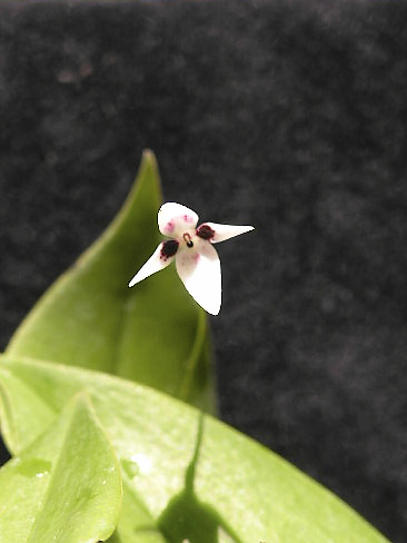 Orchid: Pleurothallis anthrax, syn. Ancipitia anthrax, cropped detail